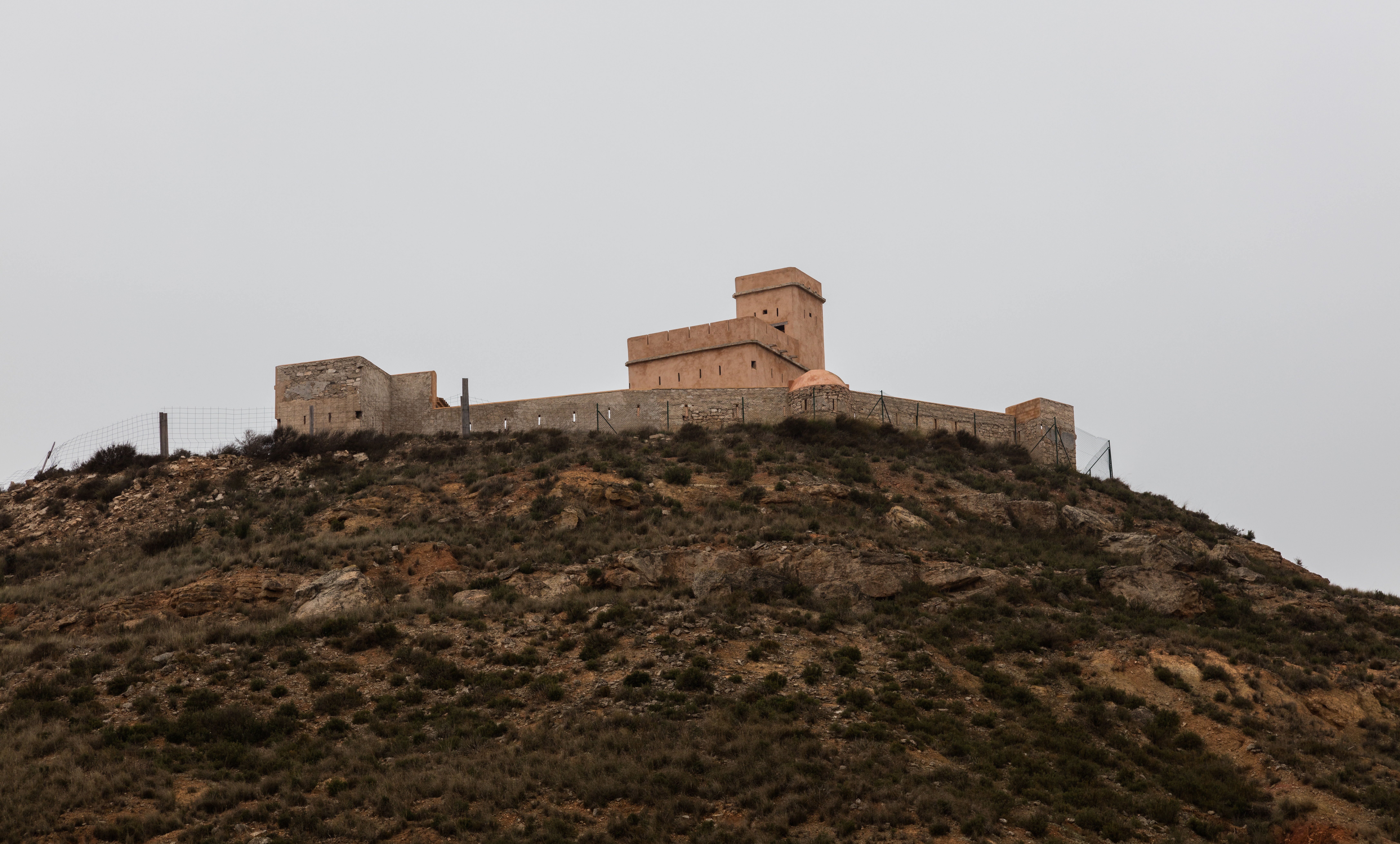 Fortress, Sástago, Zaragoza, Spain